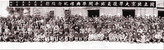 Opening Ceremony for Demobolizing to Peking, Peking University